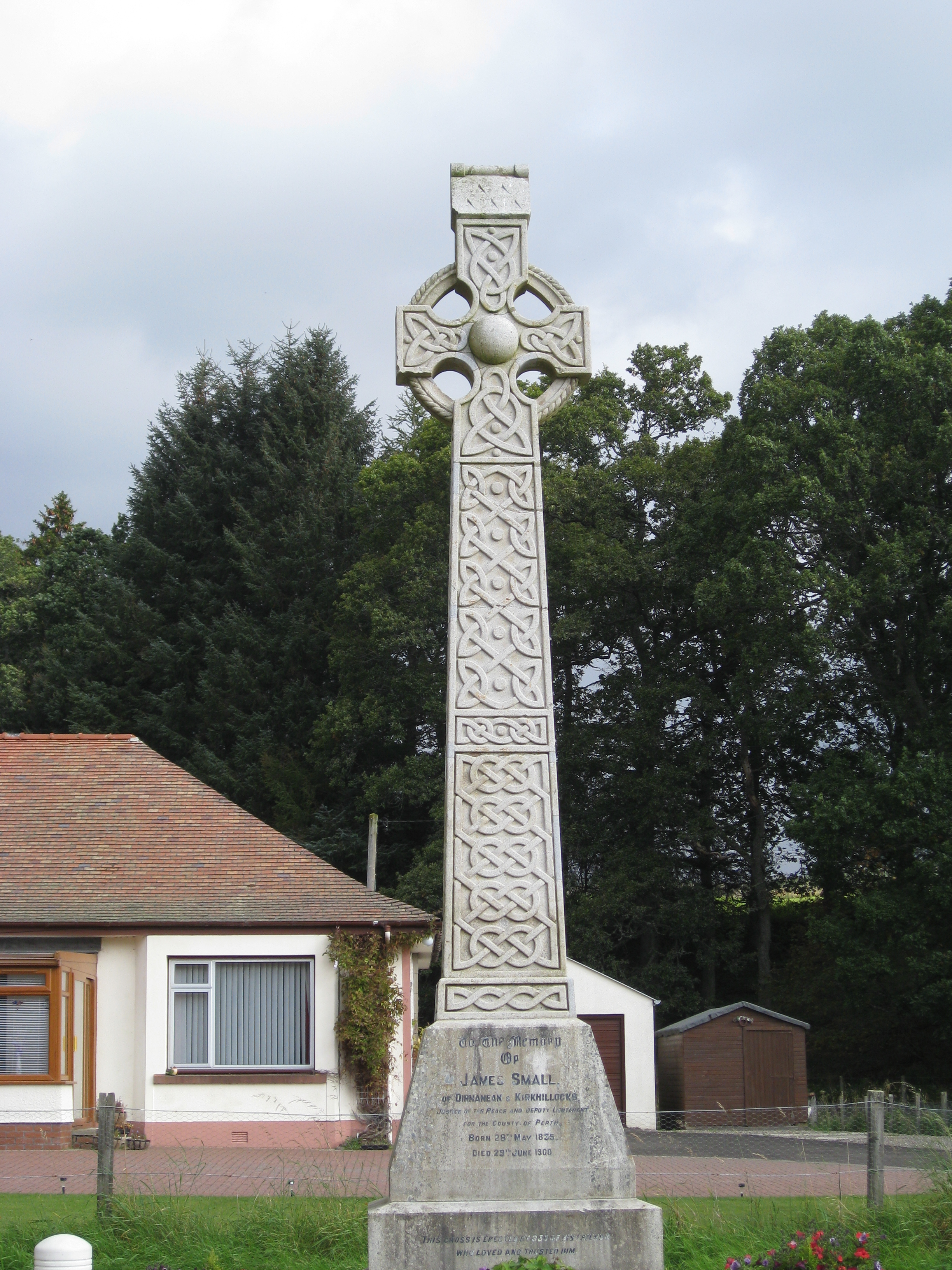 Own Work